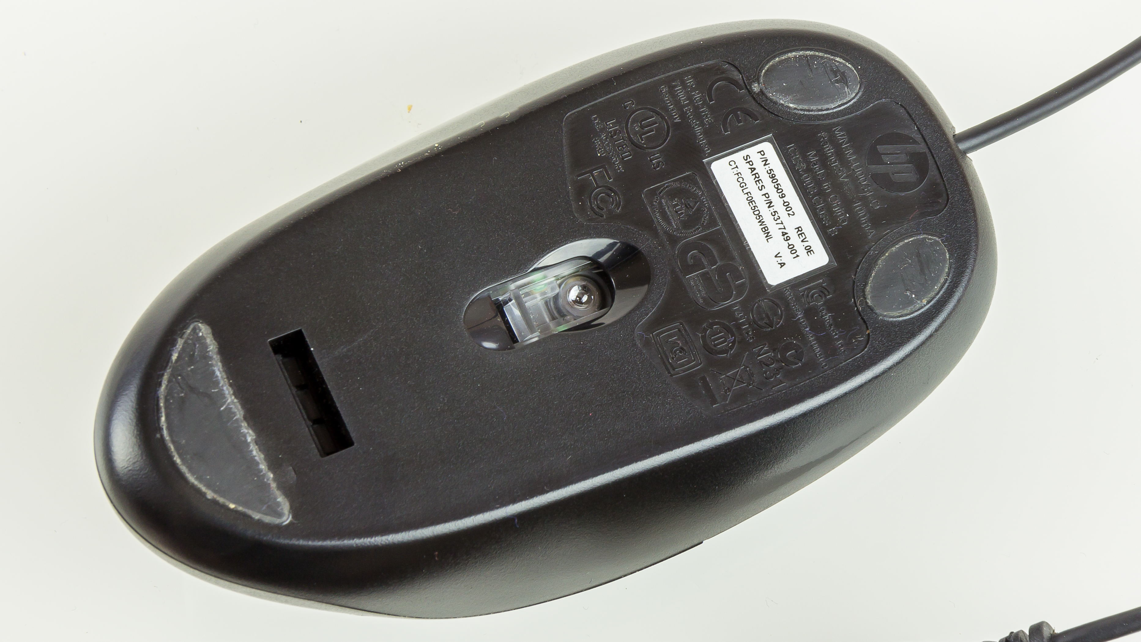 HP Optical Mouse M-U0031-O with USB